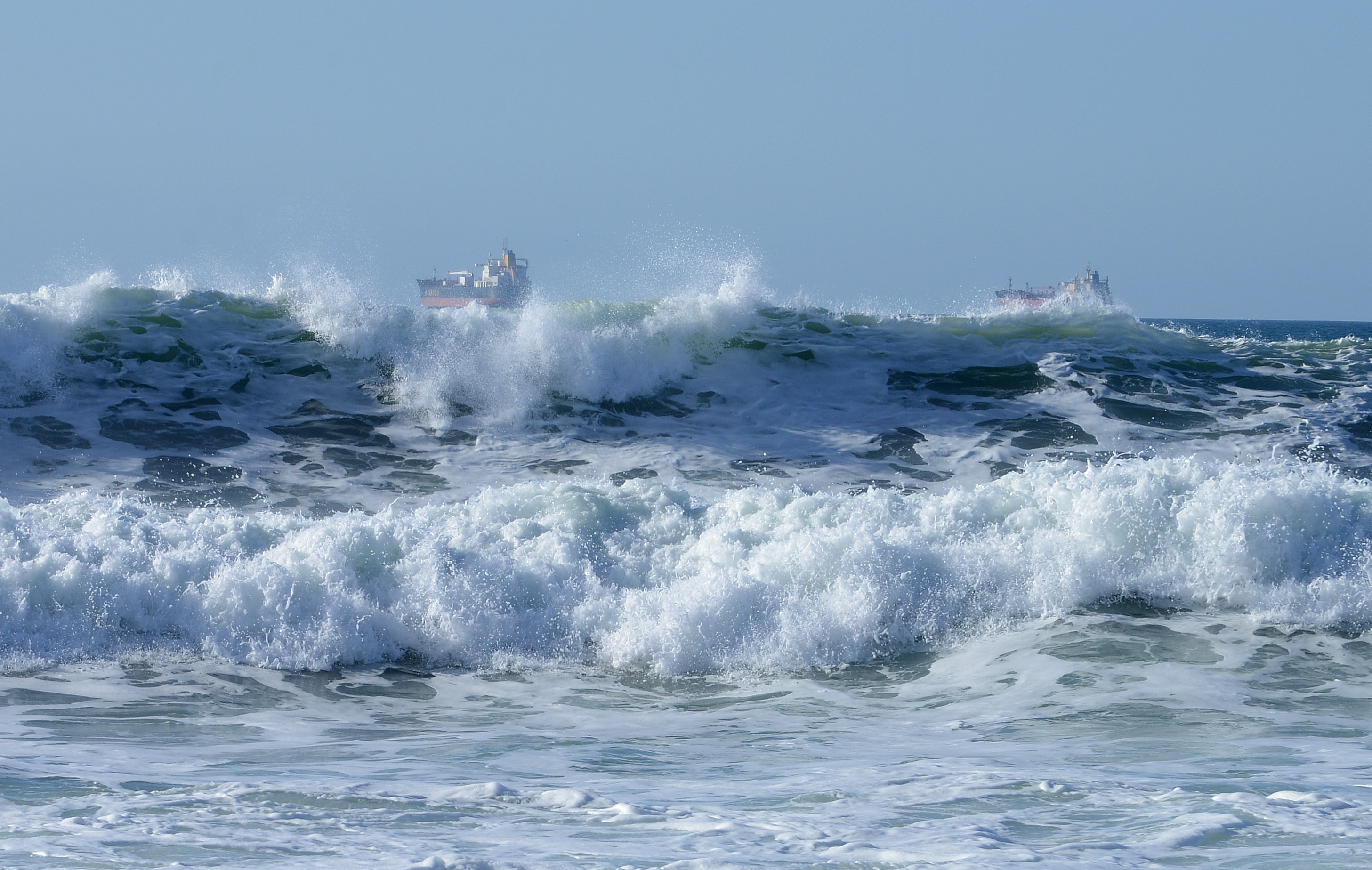 Waves breaking with ships waiting to enter the porto of Sines, Porto Covo, Portugal.